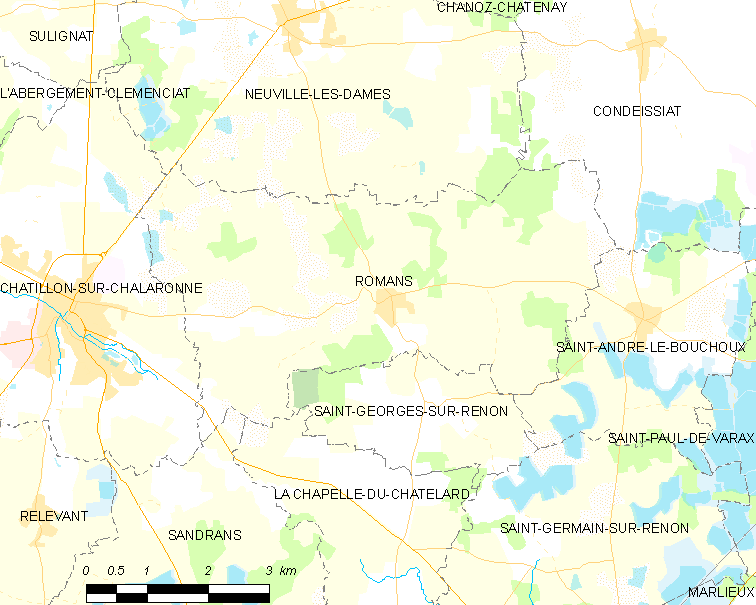 Map of French commune: Romans Map commune FR insee code 01328.png